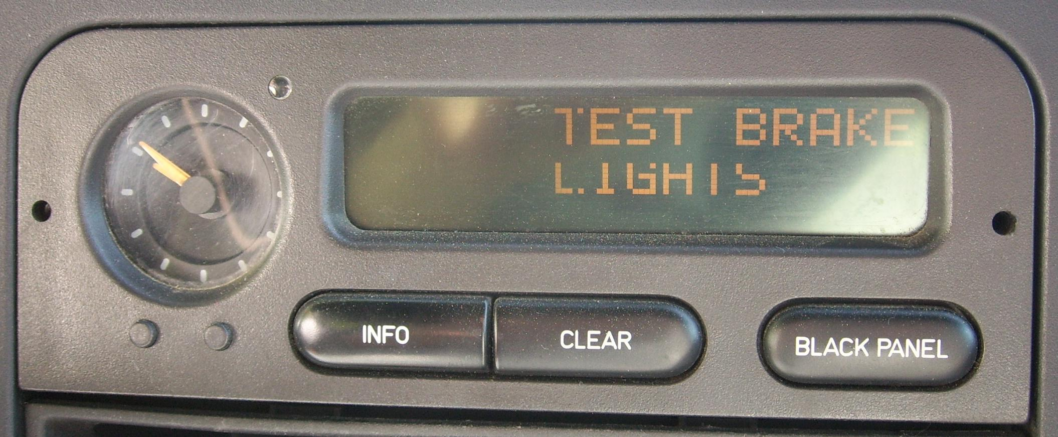 SID in a 1995 Saab 900SE